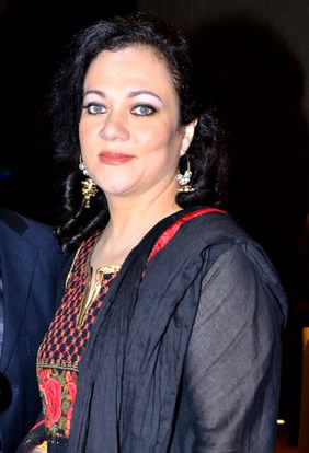 Mandakini at Durga Jasraj's daughter Avani's wedding reception